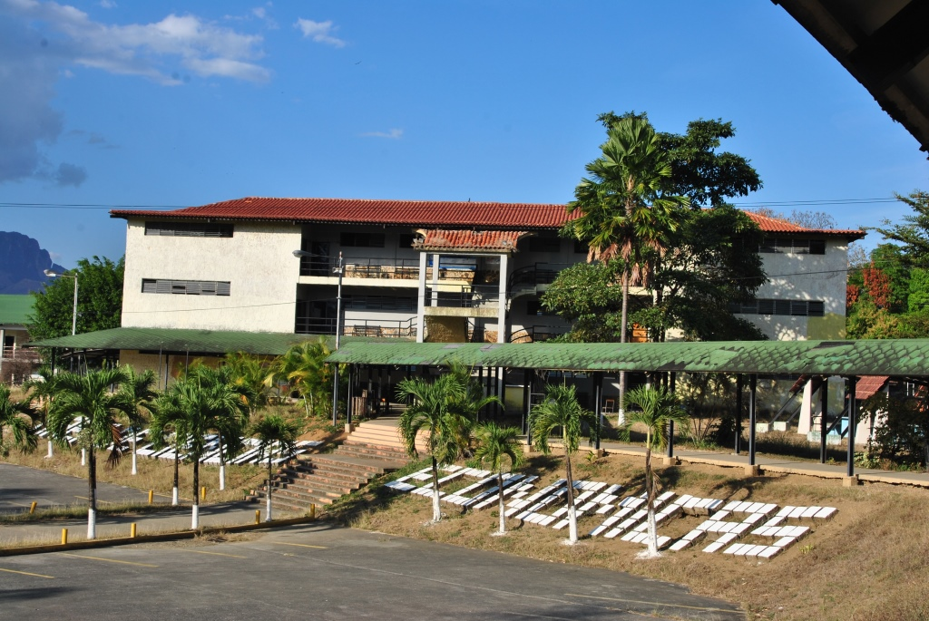 Current headquarters of the Faculty of Economic Sciences in San Juan de los Morros, owned by UNERG. Building where some economists, social communicators, and accountants of the country are prepared.